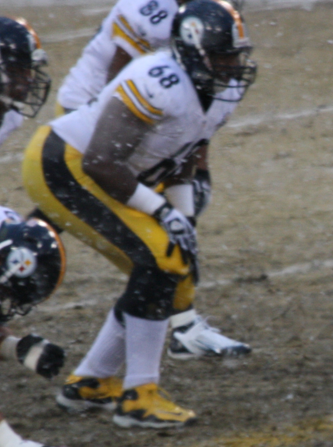 Pittsburgh Steelers offensive lineman Kelvin Beachum prepared for a snap.